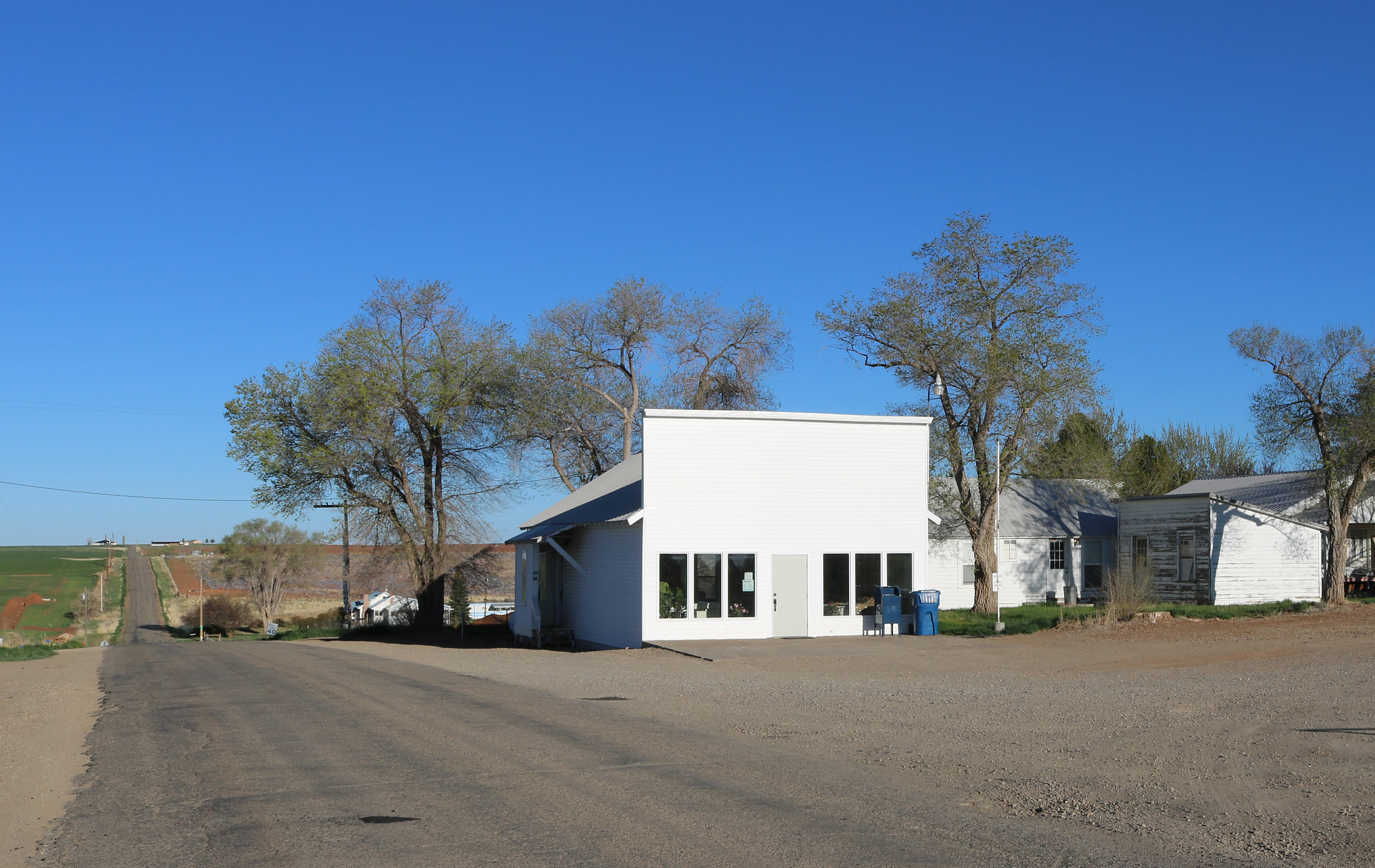 A view of the unincorporated community of Yellow Jacket, Colorado, in Montezuma County. The white building is the U.S. Post Office in Yellow Jacket. The road on the left is Montezuma County Road Y. The gravel road that starts on the right is Montezuma County Road 18.